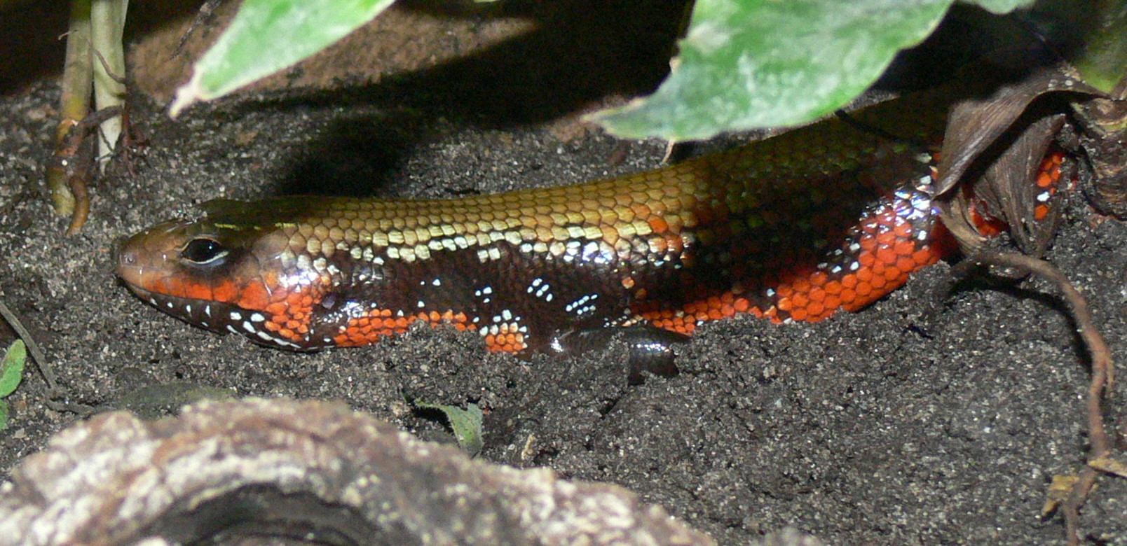 Lepidothyris fernandi taken at the Tierpark Berlin, Germany